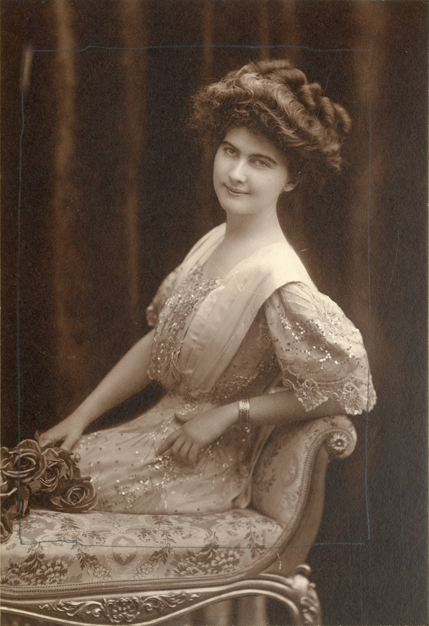 Georgie O'Ramey, stage actress Subjects: actresses